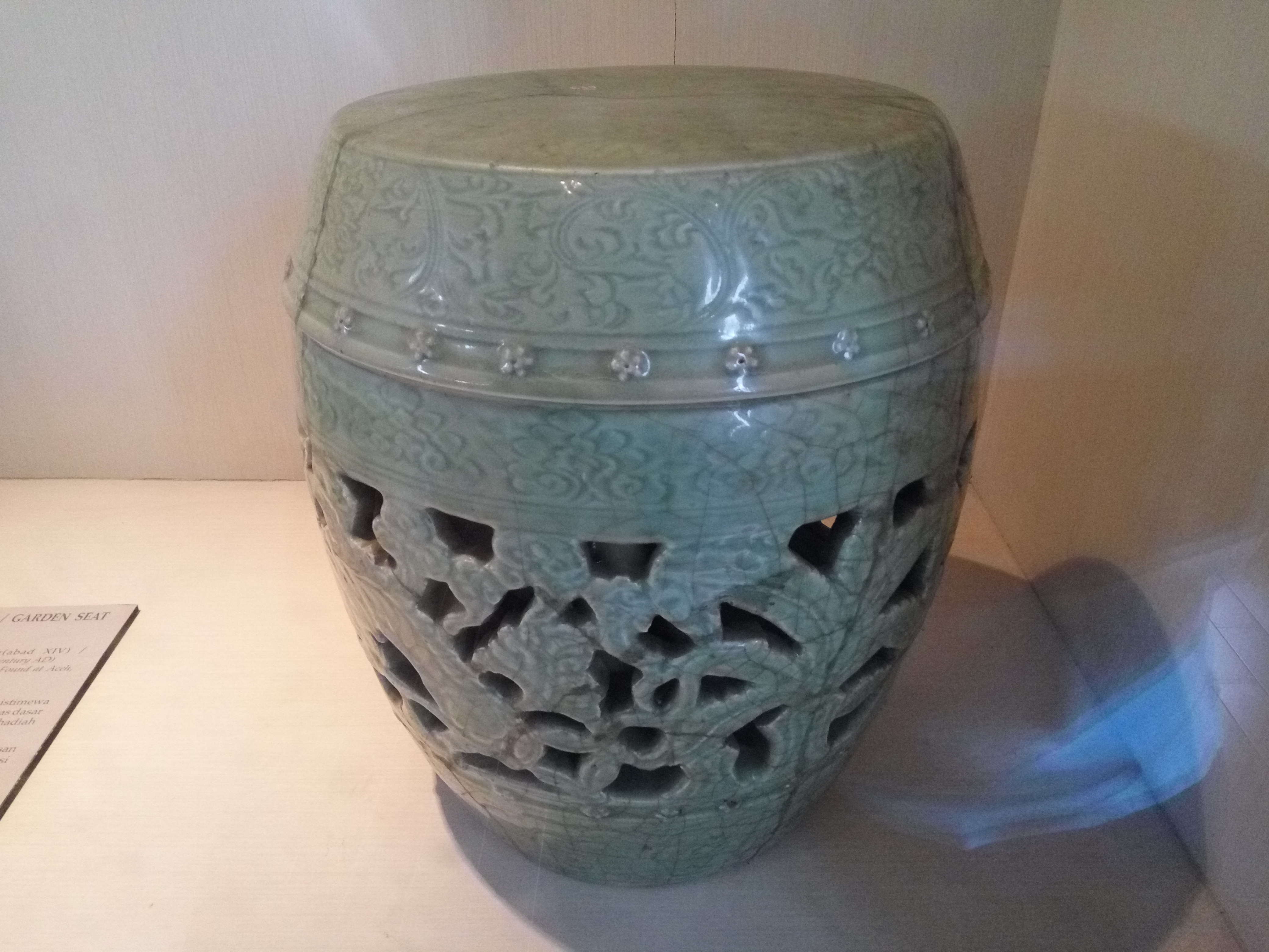 Porcelain garden seat from 14th century Yuan-Ming Dynasty found in Aceh, Indonesia. National Museum of Indonesia collection.